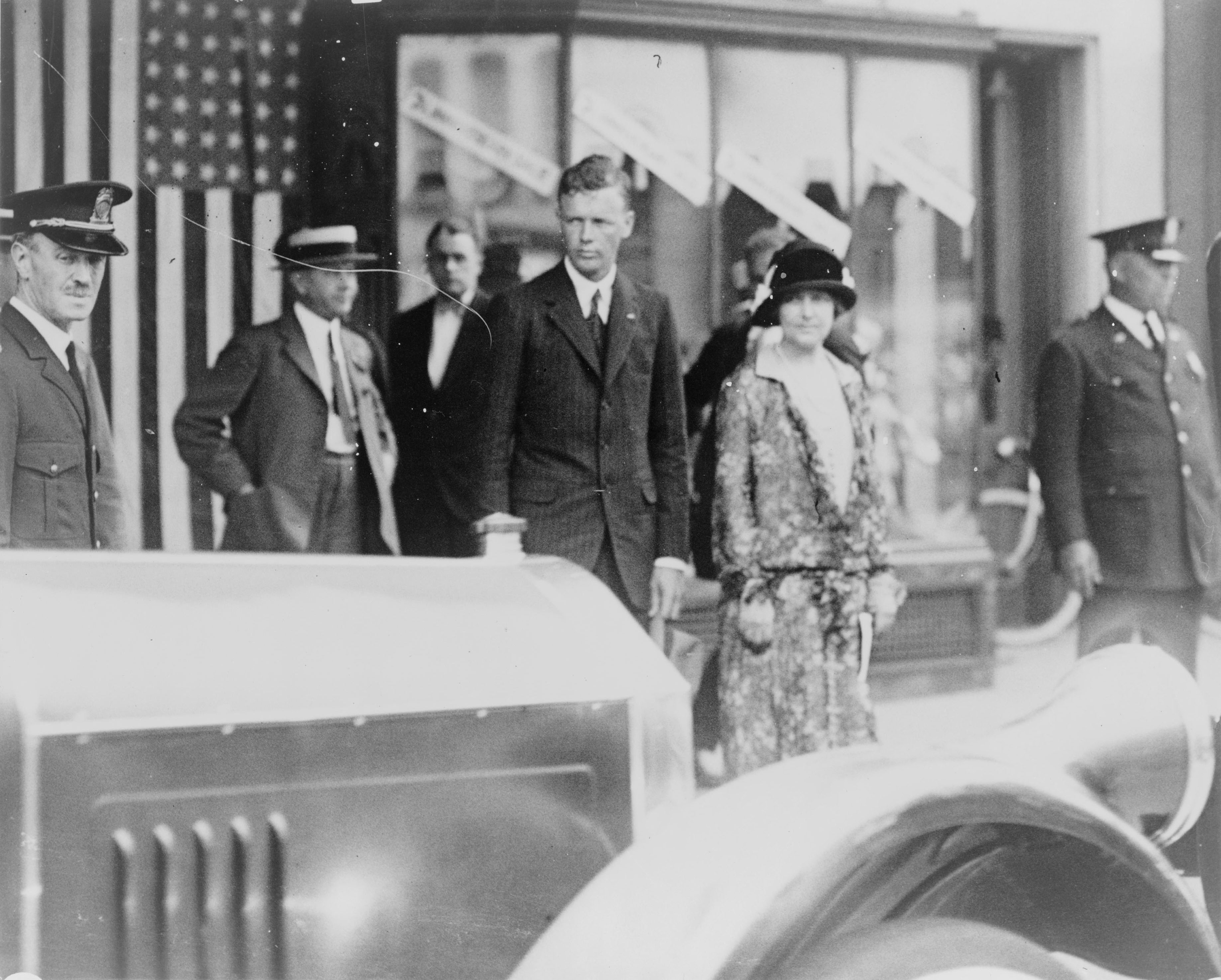 Mr. and Mrs. Charles A. Lindbergh leaving church in the Washington, D.C. area